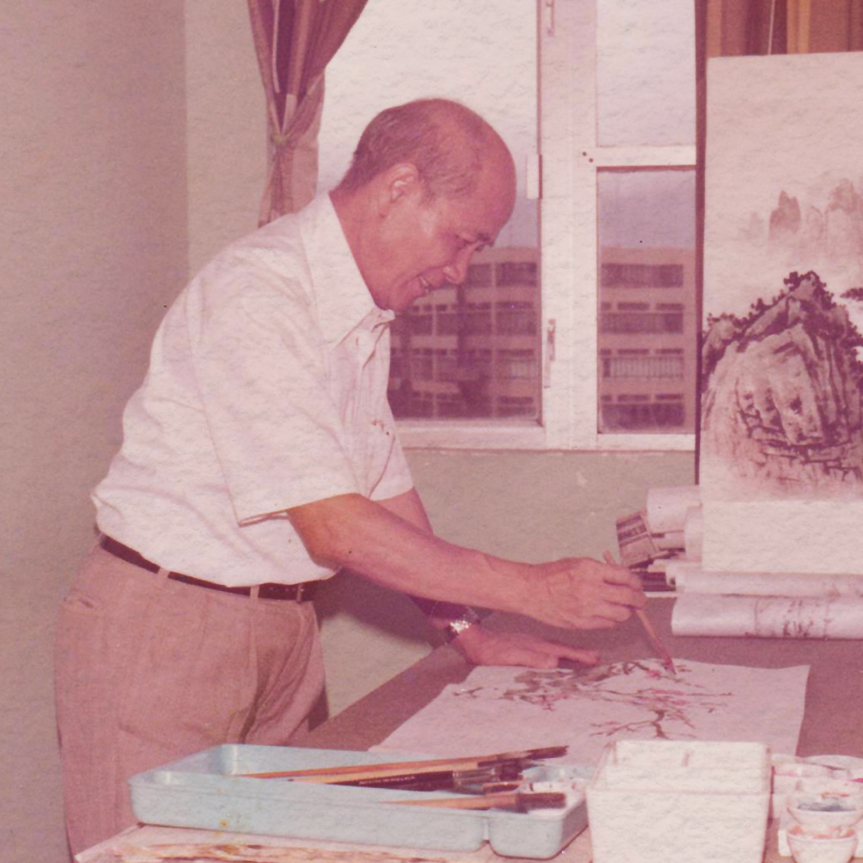 Early years of Chai Sip Art Studio